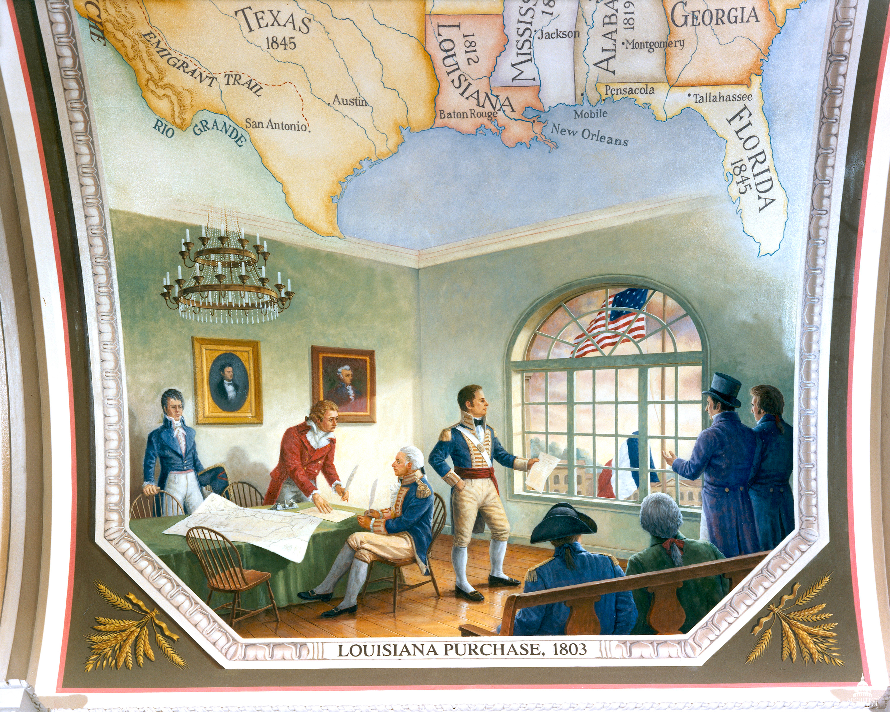 EverGreene Painting Studios Oil on Canvas 1993-1994 The third signing of the Louisiana Treaty, which occurred in New Orleans, is depicted. This official Architect of the Capitol photograph is being made available for educational, scholarly, news or personal purposes (not advertising or any other commercial use). When any of these images is used the photographic credit line should read “Architect of the Capitol.” These images may not be used in any way that would imply endorsement by the Architect of the Capitol or the United States Congress of a product, service or point of view. For more information visit